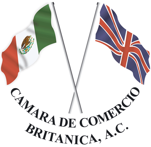 Official Logo